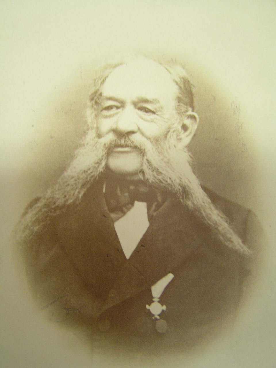 Carl Budischowsky from Třebíč, industrial magnat.